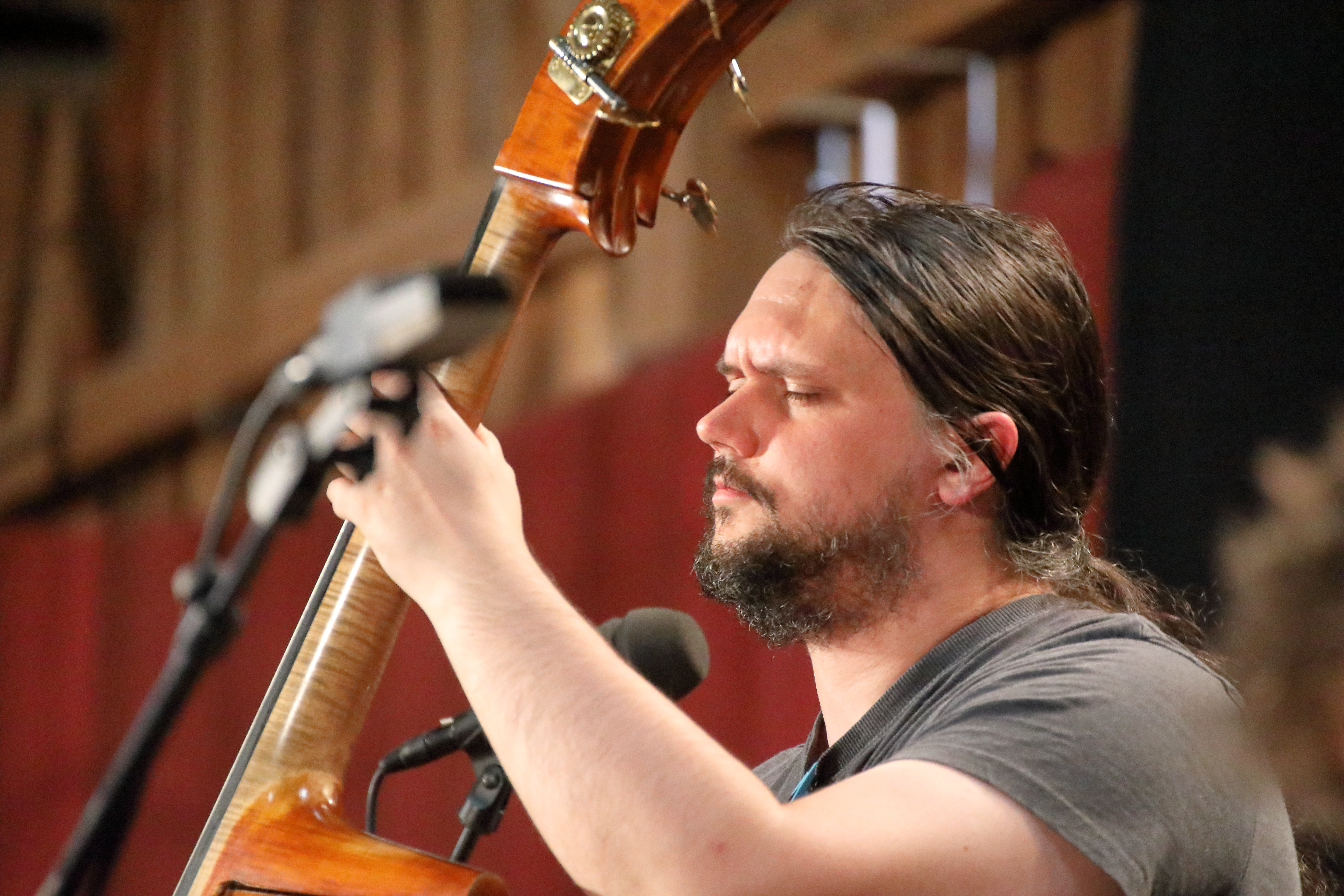 Thelonious with special guest Steve Cardenas at INNtöne Jazzfestival 2019. Lineup: Steve Cardenas (g}, Hans Koller (vtbo, euphonium), Martin Speake (as), Calum Gourlay (db) & ??? (dr).